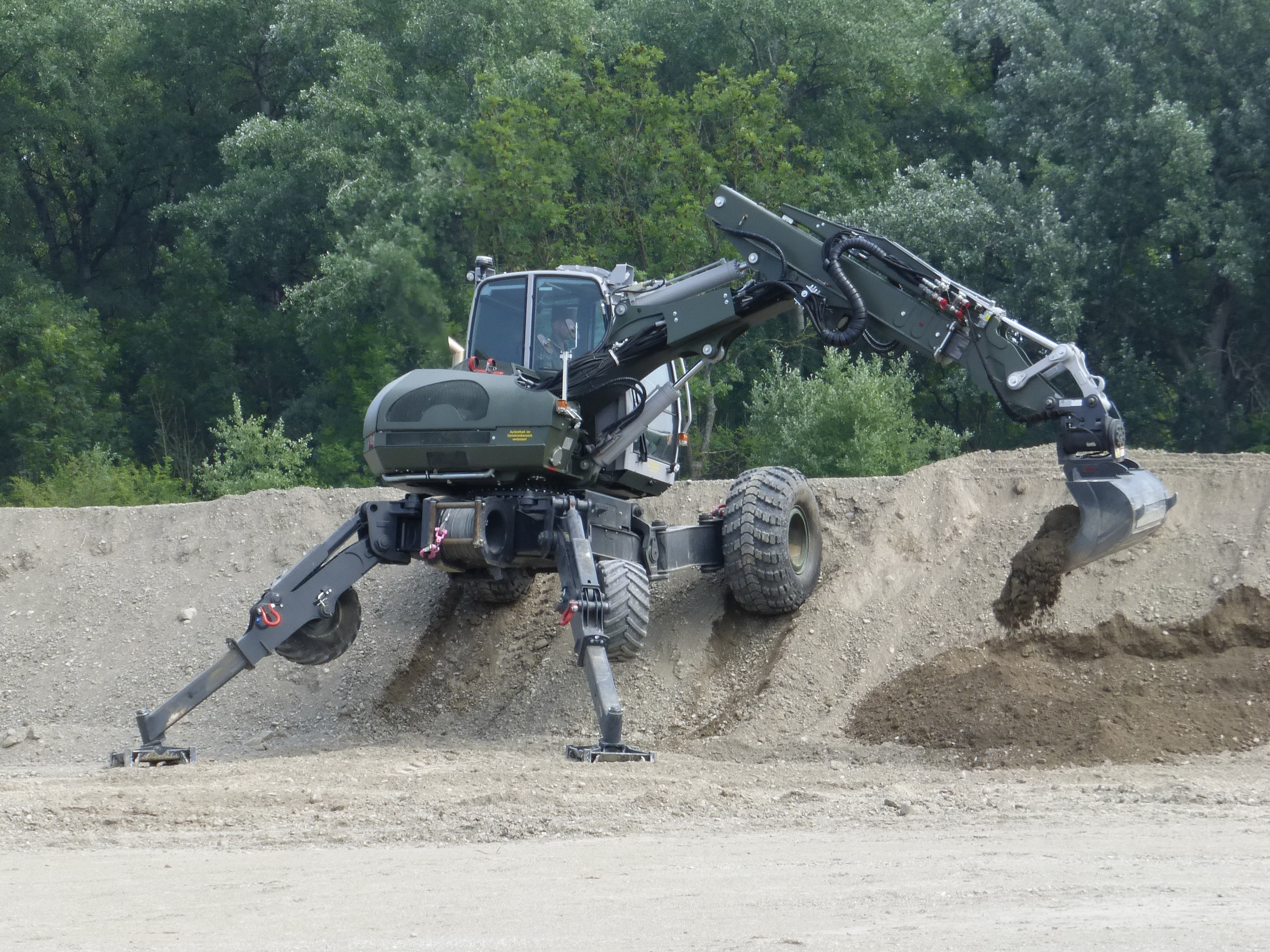 Walking excavator Kaiser SX of the Austrian Bundesheer at the "Day of the Bundeswehr 2018" in Ingolstadt, Bavaria, Germany